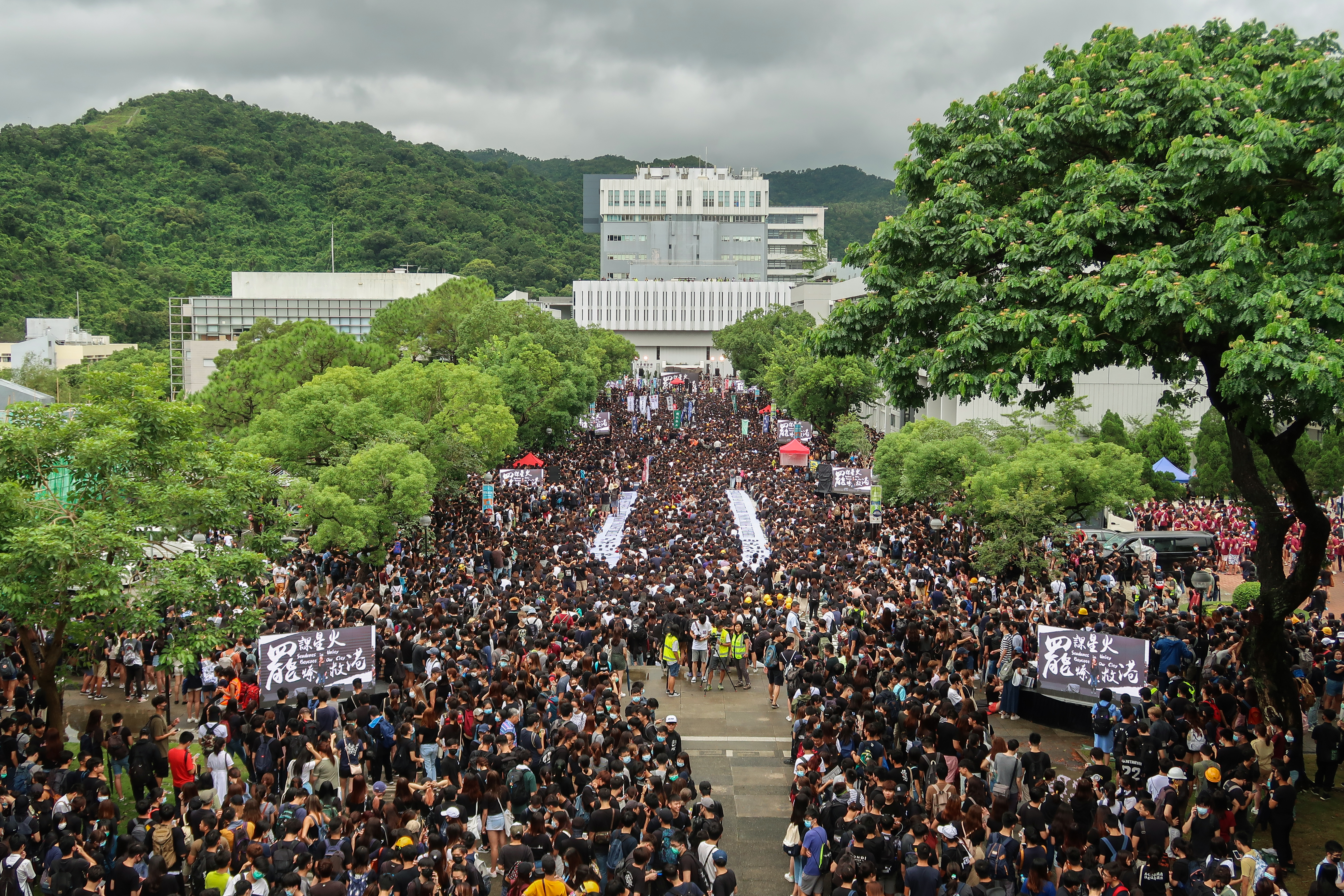 Mass rally at CUHK